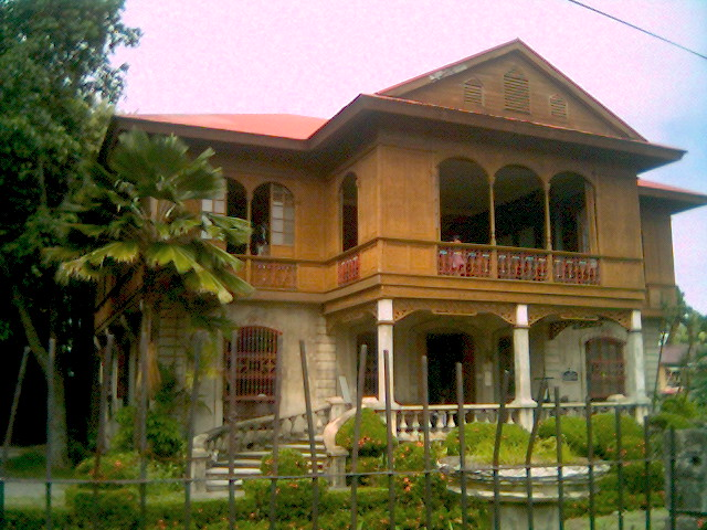 The Balay Negrense, a lifestyle museum in Silay City, Negros Occidental, Philippines